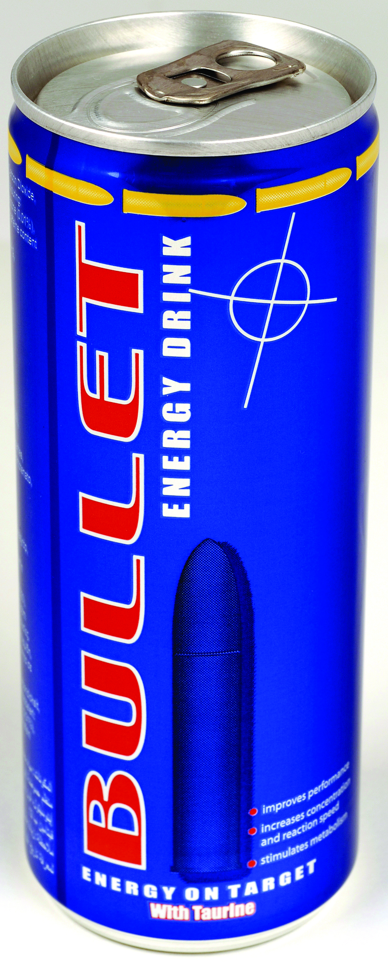 A can of Bullet energy drink.